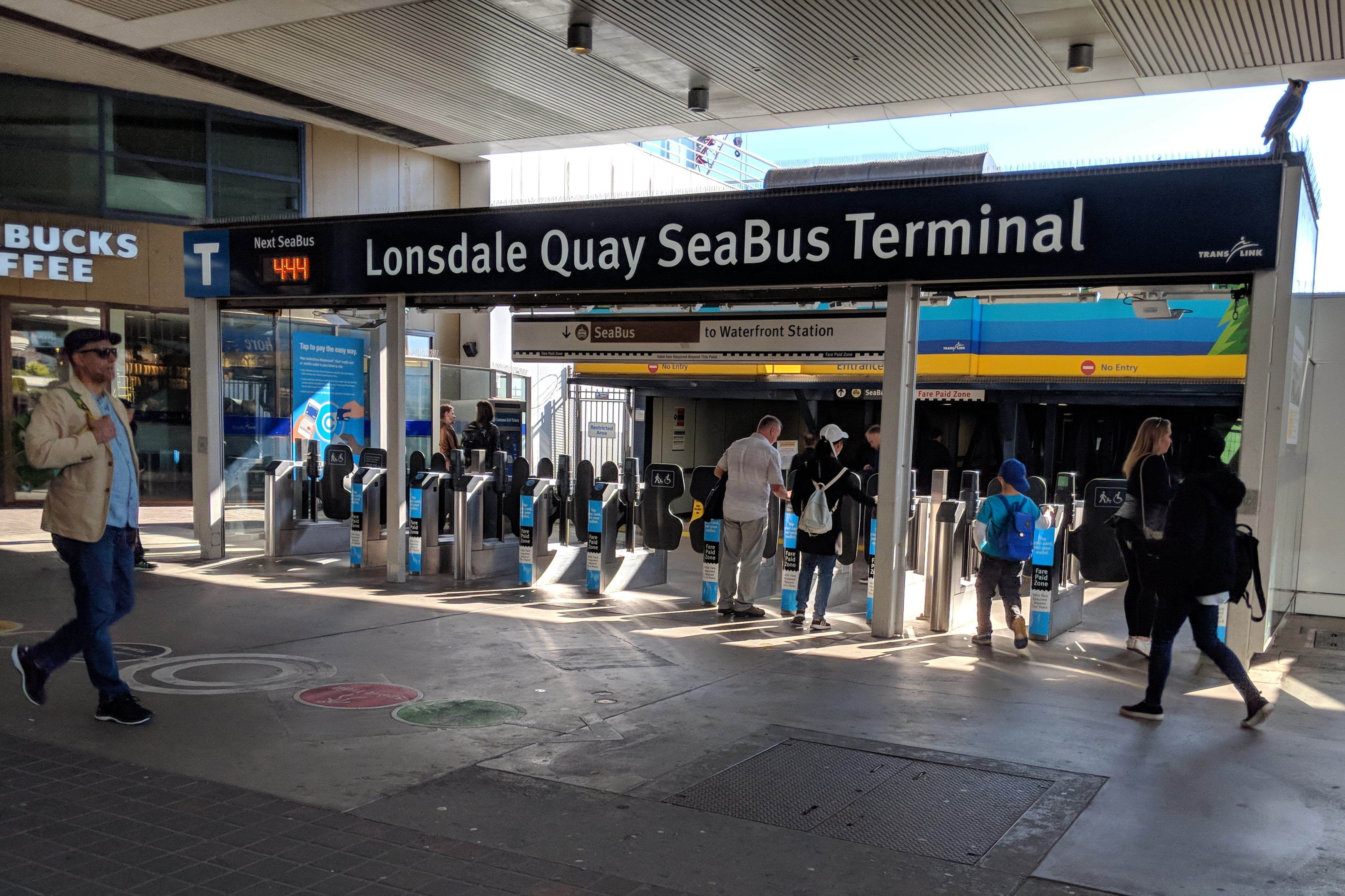 Entrance to the Lonsdale Quay ferry terminal in March 2019.